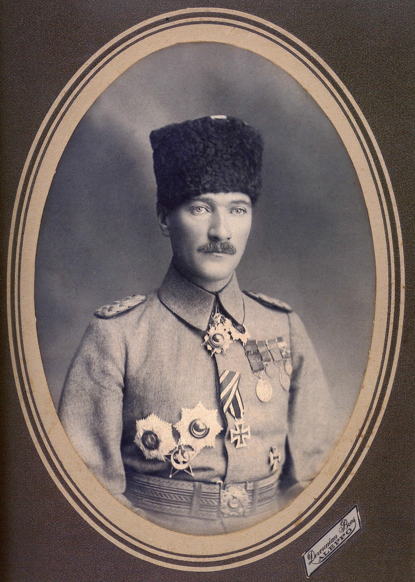 Kemal Atatürk (or alternatively written as Kamâl Atatürk, Mustafa Kemal Pasha until 1934, commonly referred to as Mustafa Kemal Atatürk; 1881 – 10 November 1938) was a Turkish field marshal, revolutionary statesman, author, and the founding father of the Republic of Turkey, serving as its first President from 1923 until his death in 1938. He undertook sweeping progressive reforms, which modernized Turkey into a secular, industrial nation. Ideologically a secularist and nationalist, his policies and theories became known as Kemalism. Due to his military and political accomplishments, Atatürk is regarded as one of the most important political leaders of the 20th century.